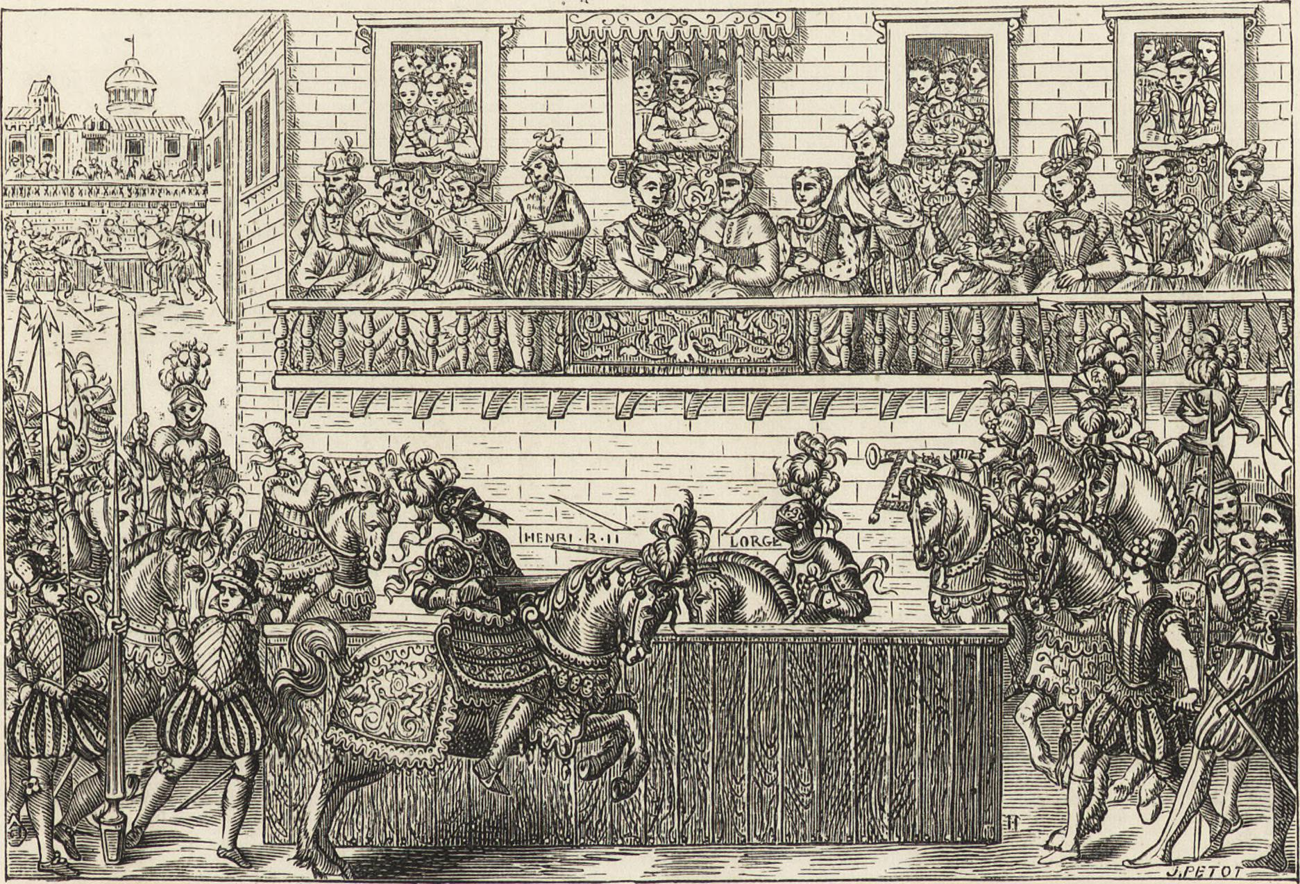 Title: Military and religious life in the Middle Ages and at the period of the Renaissance Year: 1870 (1870s) Authors: Jacob, P. L., 1806-1884 Subjects: Middle Ages Civilization, Medieval Civilization, Renaissance Costume Military art and science Christian life Publisher: London : Bickers & Son Text Appearing Before Image: CHIVALRY. 169 religious charm which still pervaded the chivalric sports of this epoch, toperpetuate with pen and pencil, in prose and in verse, the memory of amagnificent festival over which he presided, and which may be consideredan unsurpassed example of the ceremonies of the time. All who take aninterest in the. subject should read this curious manuscript, which describesamong other things the famous struggle between the Duke of Brittanyand the Duke of Bourbon. In this may be found related to its smallestdetails the whole ceremony of a grand tournament, its forms, its progress, Text Appearing After Image: Fig. 135.—King Henri II. wounded by Montgomery in a Tournament (1S59).—From anEngraving of the Sixteenth Century in the possession of M. Ambr. Firmin-Didot. and its incidents ; in it appear careful comments upon every trifle thatincreased the brilliancy or added to the effect of this courtly festival, as wellas everything that threw a light upon the spirit in which it was carried out,or the usages that regulated every detail, from the armour of the knightsto the smallest incidents of the ceremonial. In its pages illustrationsreproduce with exact truthfulness the helmets of the knights with barredvizors and leathern shields, their maces, their swords, and their hourts,intended to protect the croup and the hind legs of their chargers (Fig. 136).Its text, written with great care and in an elegant hand, records the rules CHIVALRY. to be observed, in accordance with knighthoods truest spirit, at the differentstages of the combat and the tournament, and minutely describes all theirpreli